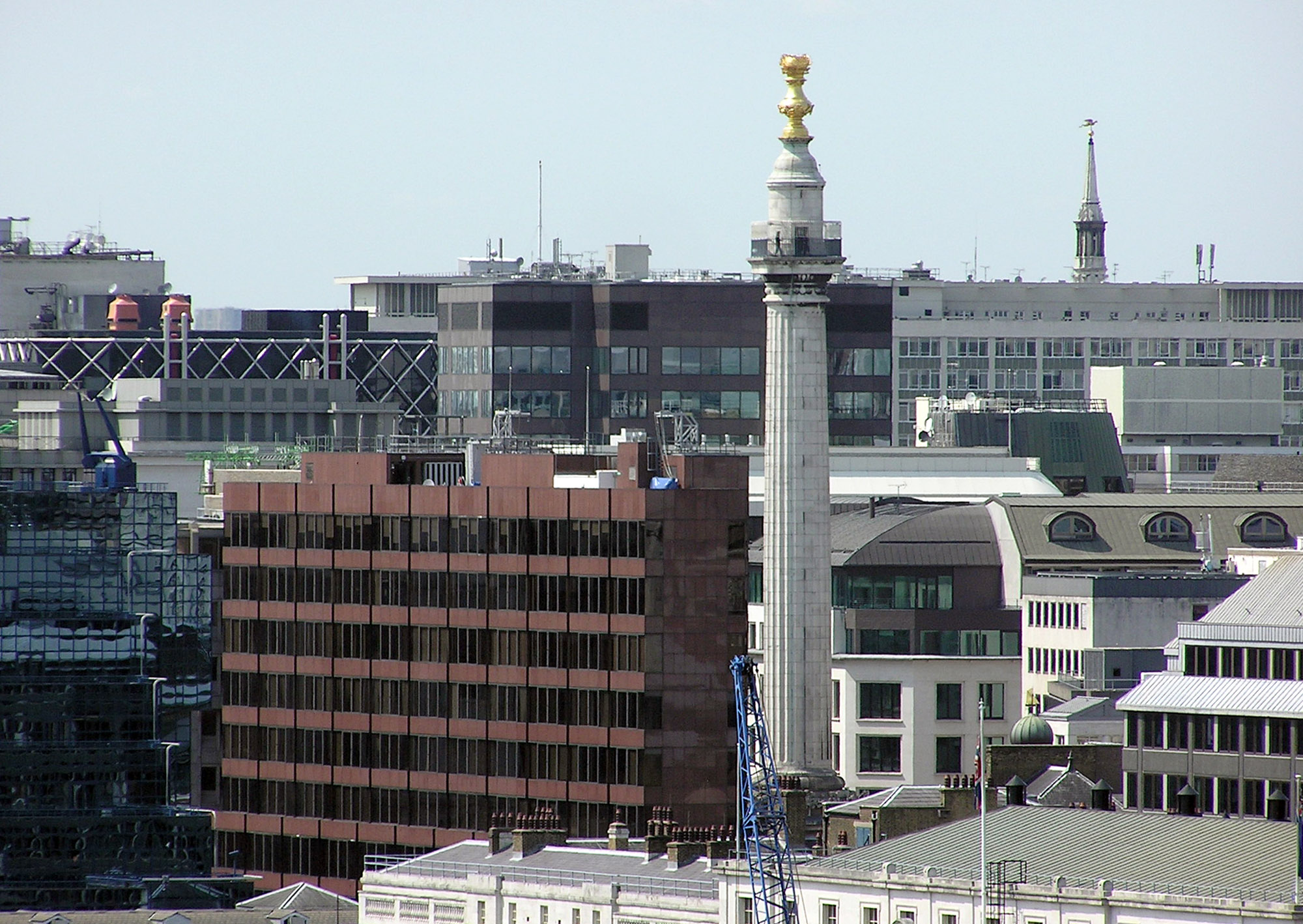 The Monument seen from the high-level walkway on Tower Bridge. Photographed by Adrian Pingstone in June 2005 and released to the public domain.